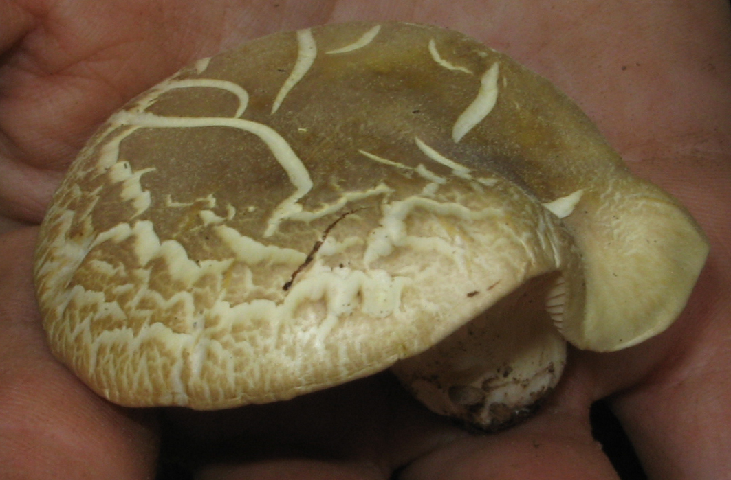 Top view of the cap of a fruit body of the fungus Cantharocybe gruberi (A.H. Sm.) H.E. Bigelow & A.H. Sm. Specimen collected in Pipi Valley, El Dorado Co., California, USA. "Notes: Under conifer."